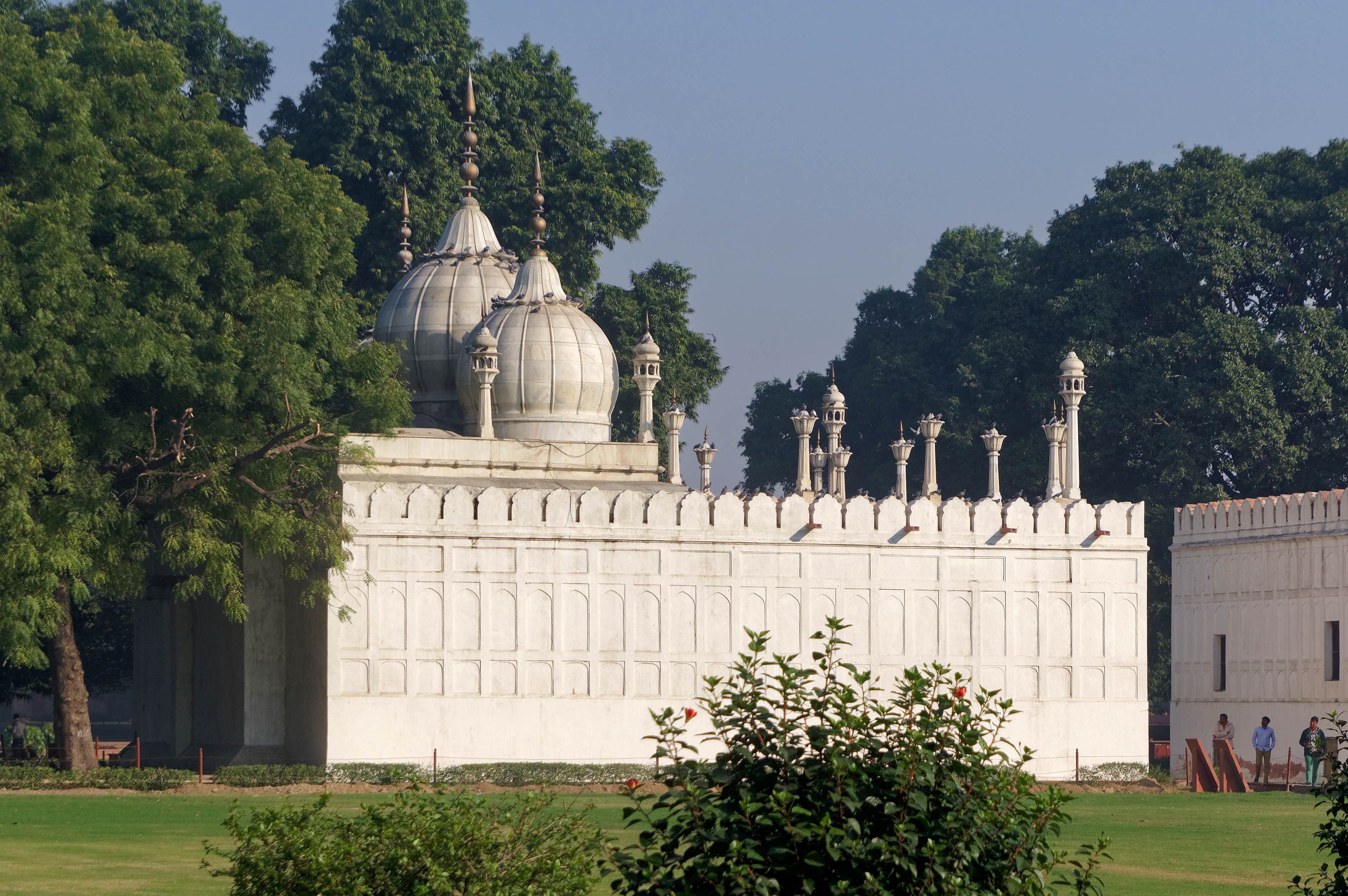 Moti Masjid, Red Fort, Delhi